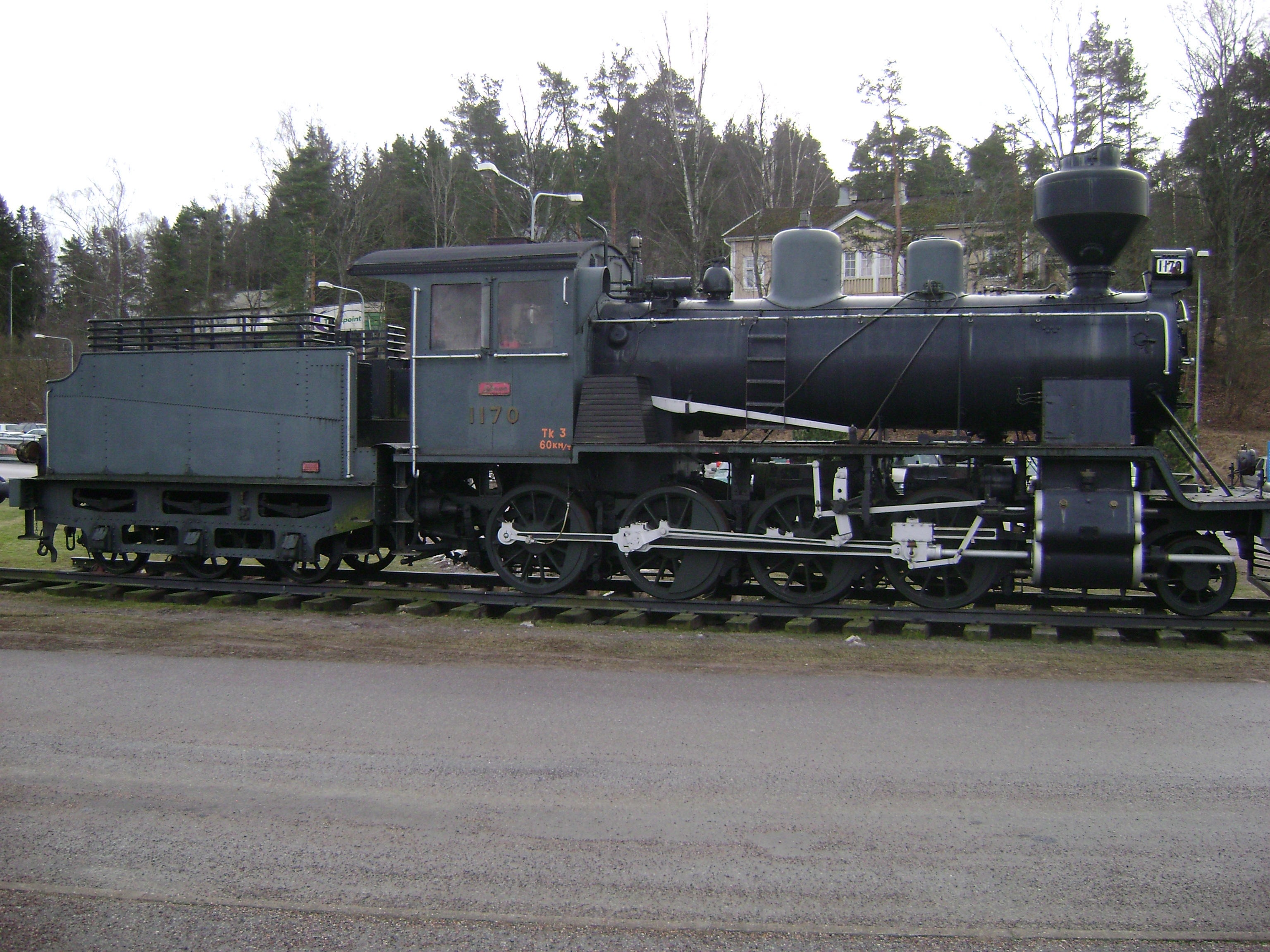 VR Class Tk3 steam locomotive no. 1170 in Karis, Finland